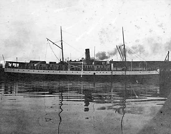 The steamship Cutch in 1898, in Canadian service.